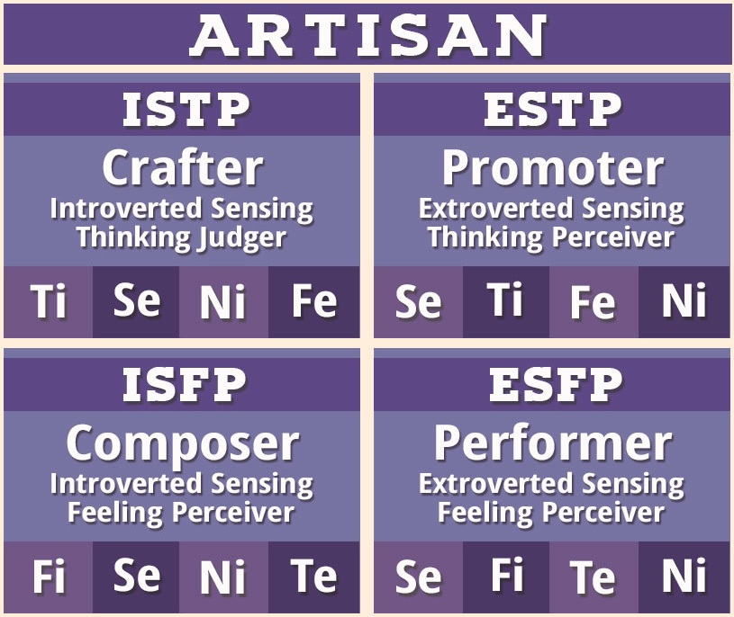 Artisan, ISTP, ESTP, ISFP, ESFP, Cognitive Functions and Keirsey Temperament